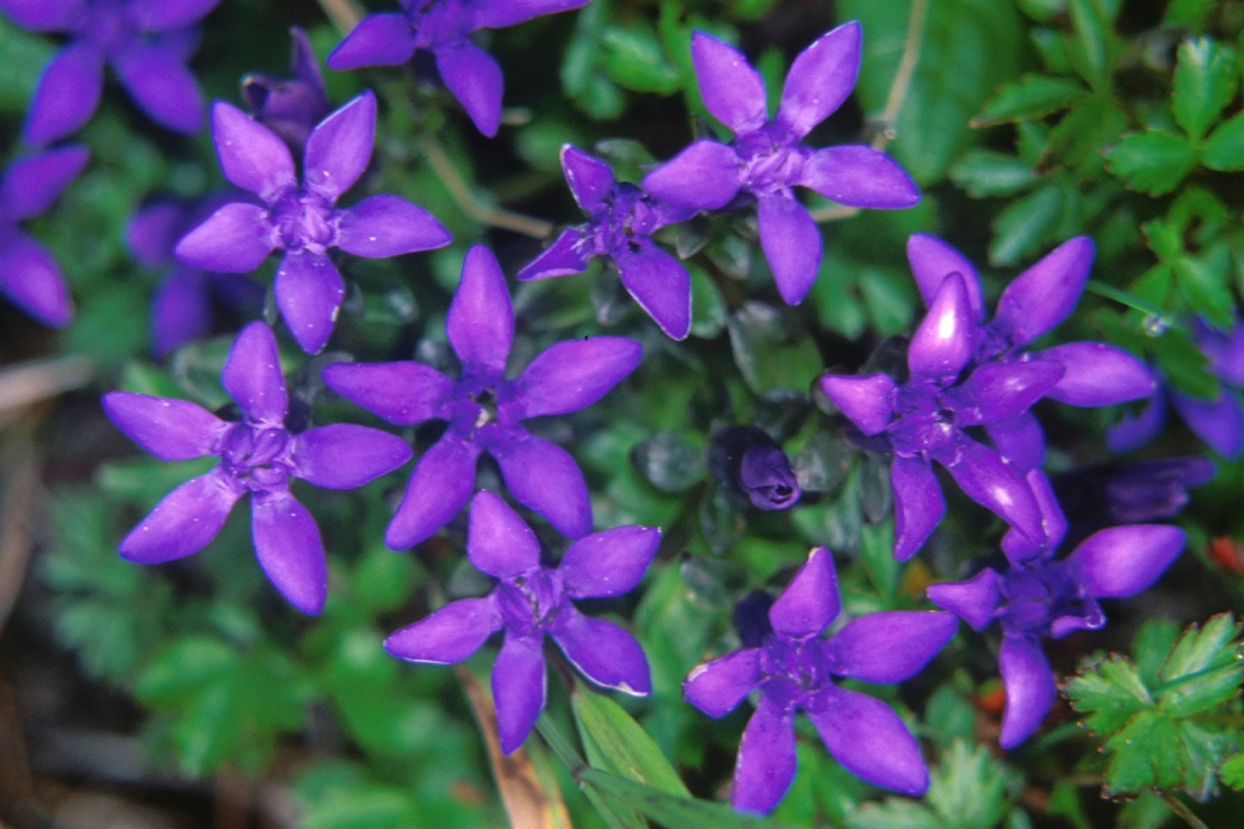 Gentiana jamesii, in Daisetsuzan Volcanic Group, Hokkaidō, Japan.